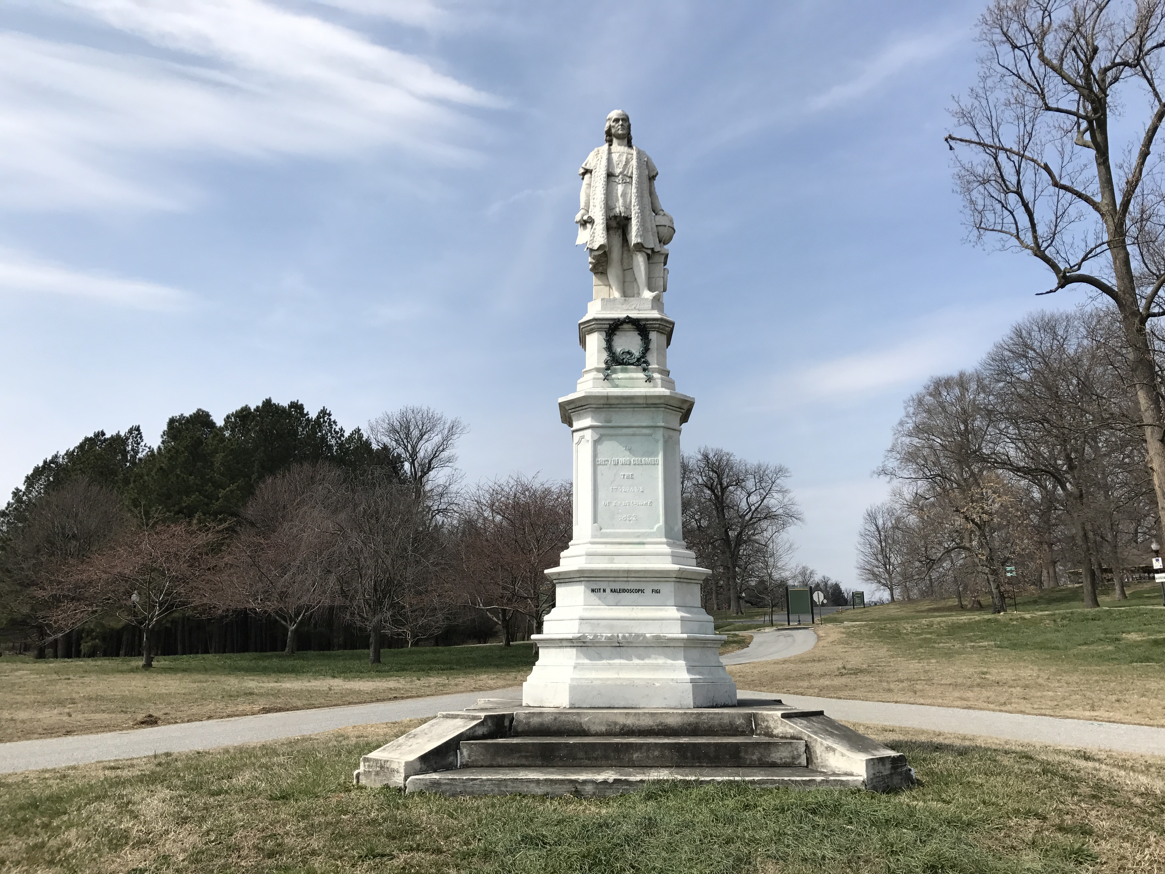 Photograph by Eli Pousson, 2017 March 24.